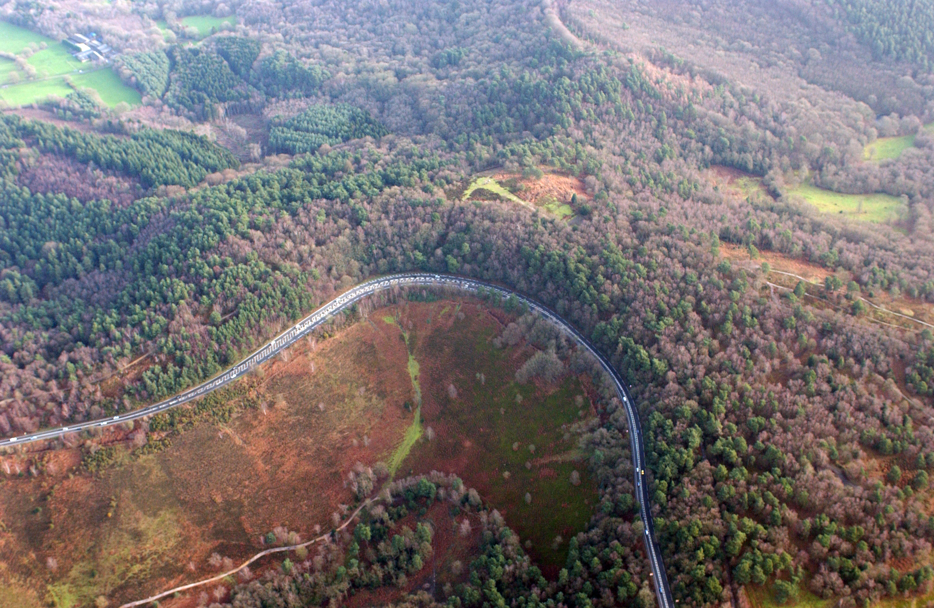 Aerial photograph of the A3 running around the rim of the Devil's Punch Bowl. (The road has since been removed, following the opening of the Hindhead Tunnel.) Gibbet Hill can be seen at upper centre.